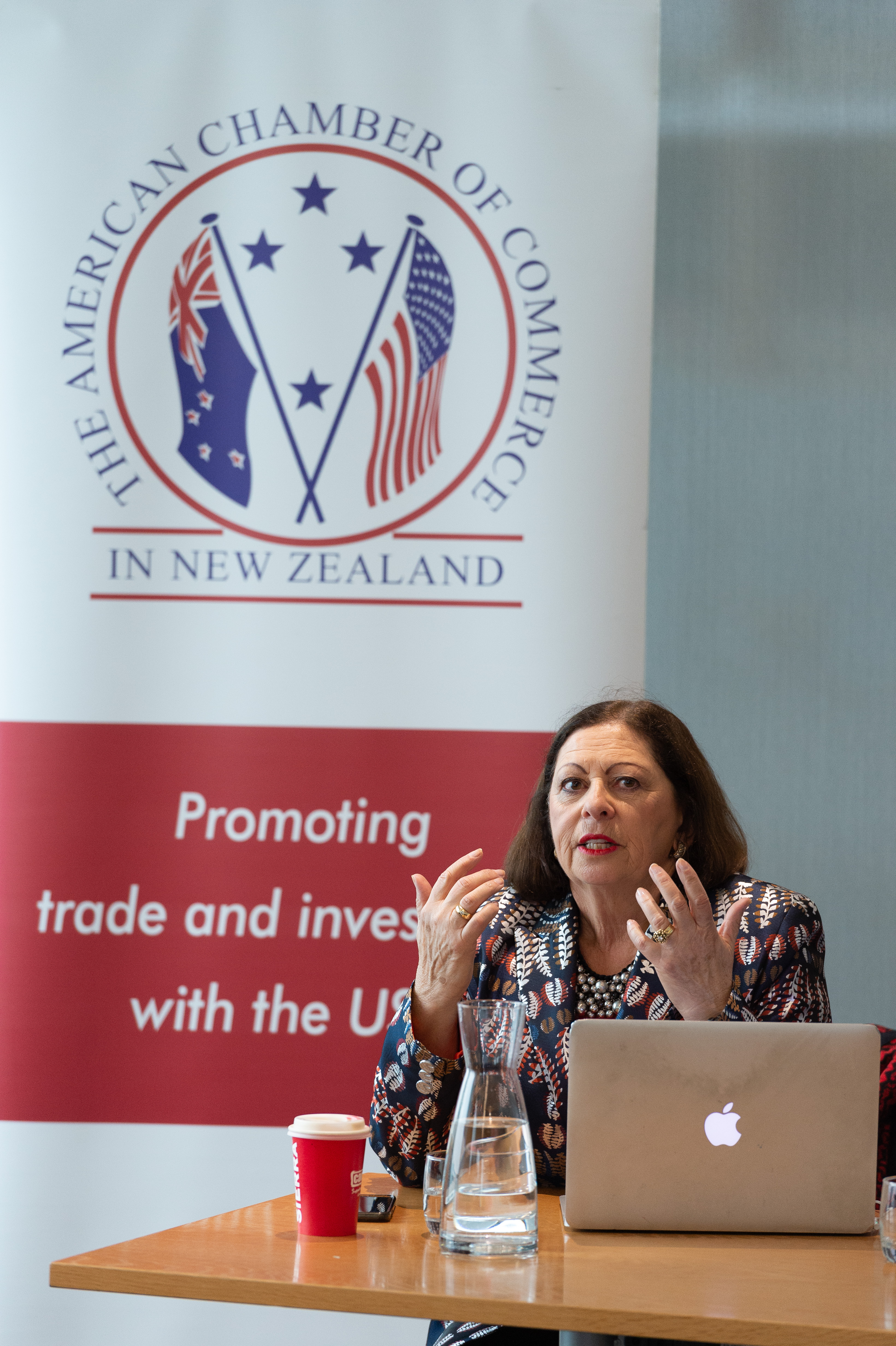 Michelle Boag speaking at Connecting Young Leaders with Alumni, 5-7 September 2018